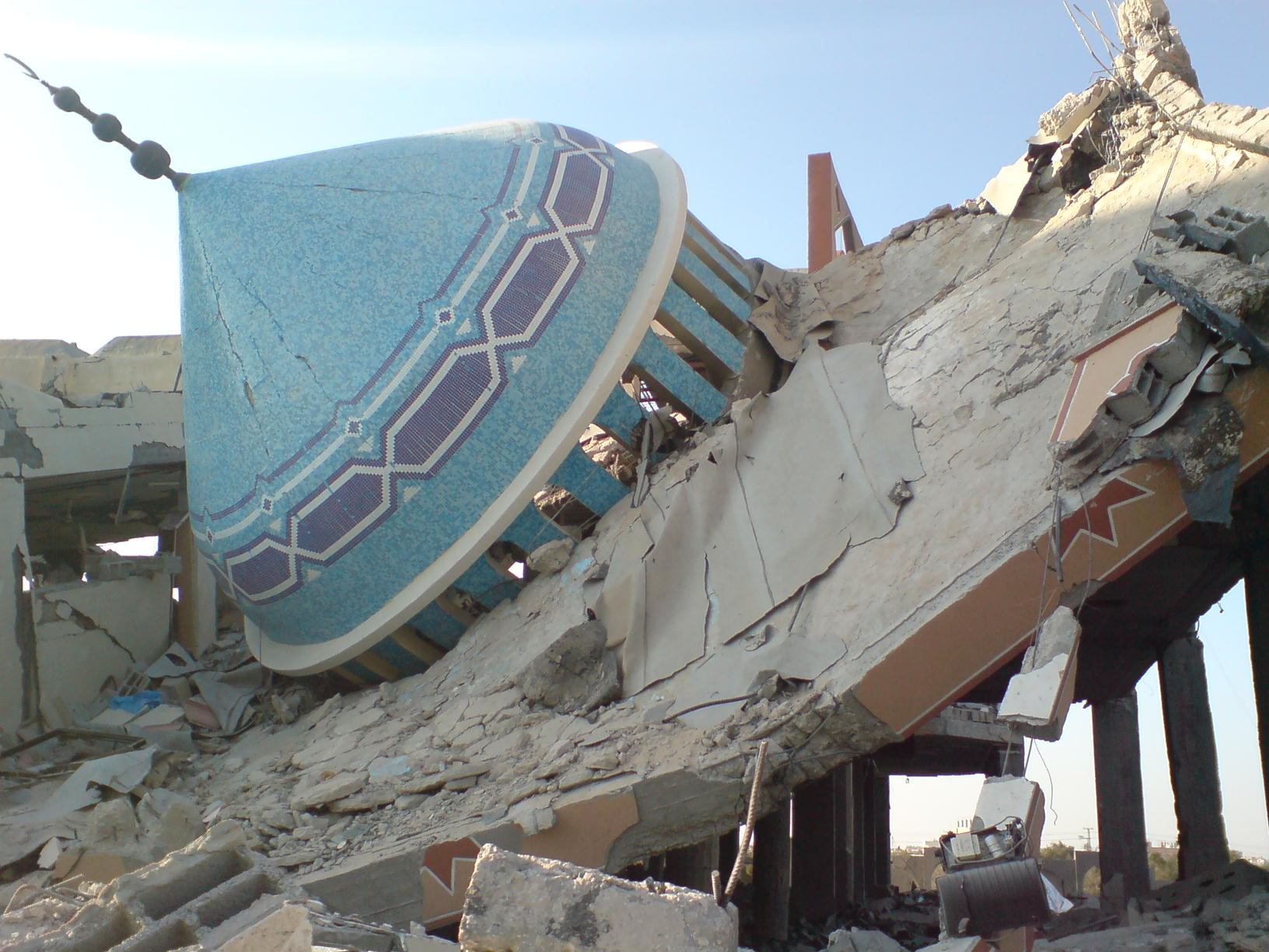 Photos taken from UNRWA refugee shelters, school and mosque in Rafah, Gaza 12th January 2009 - Photos taken from UNRWA refugee shelters, school and mosque in Rafah, Gaza - Photos taken by ISM Gaza Strip 12th January 2009 - Photos taken by the International 12th January 2009 - Photos from Rafah UNRWA refugee shelters, school and mosque. Photos taken by the International Solidarity Movement